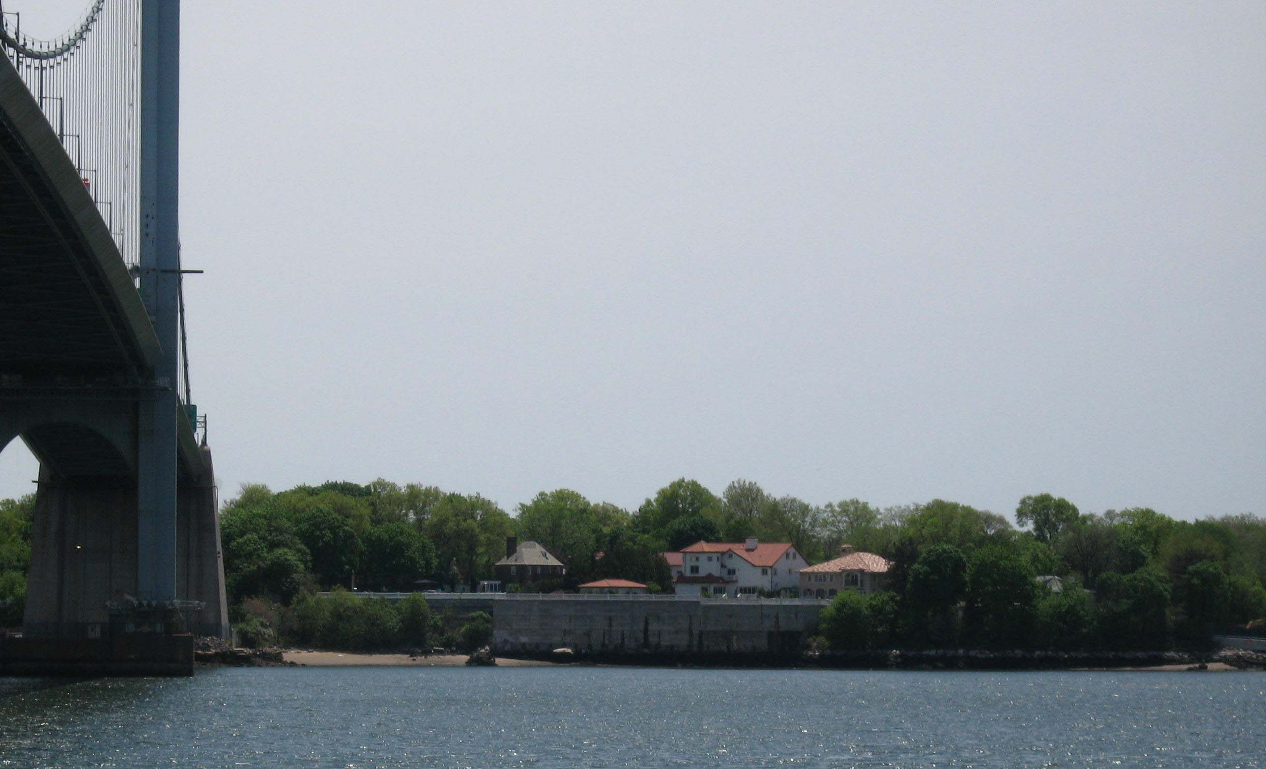 Houses in the Malba section of Whitestone, Queens as seen looking south from Ferry Point Park in The Bronx on a sunny early afternoon in springtime with just a zoom camera, not a telephoto lens.